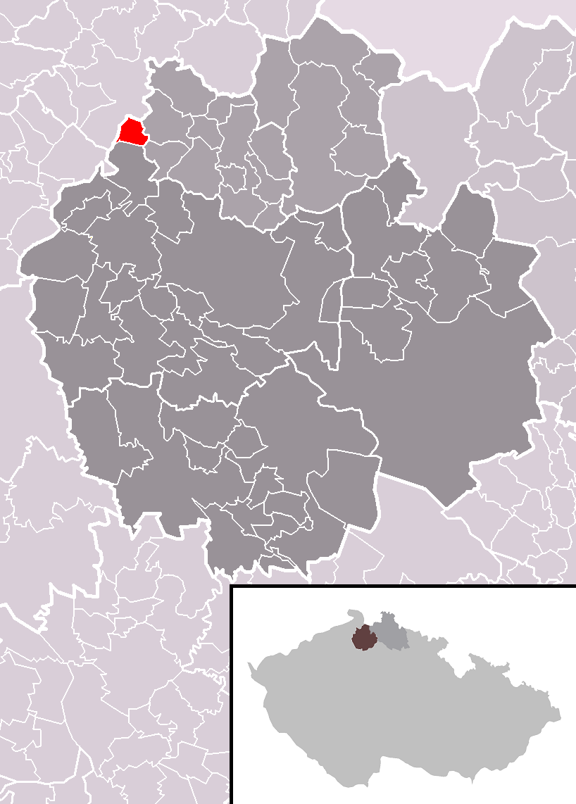 Location of Nový Oldřichov municipality within Česká Lípa District and administrative area of Česká Lípa as a Municipality with Extended Competence.